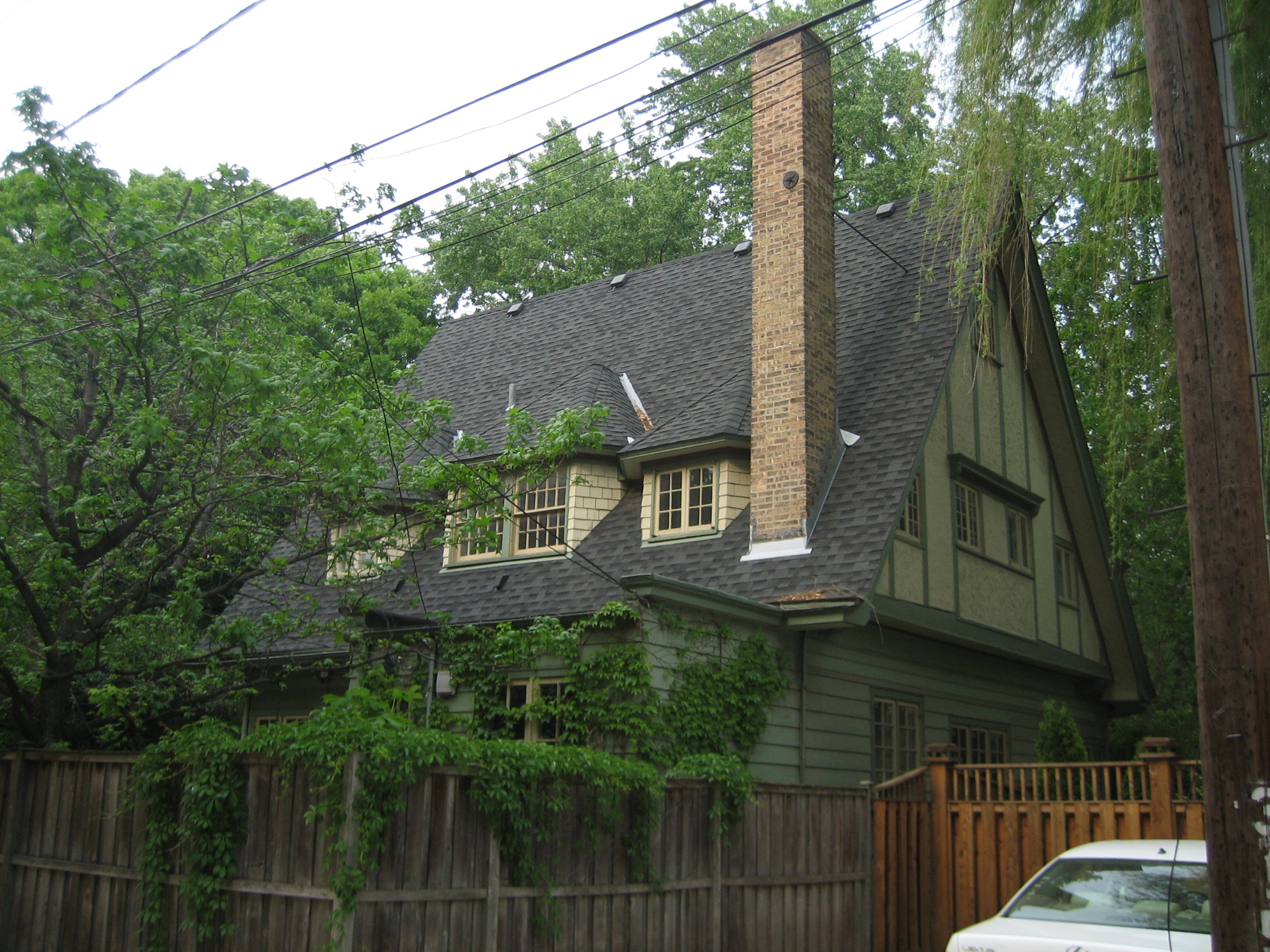 Charles E. Roberts Stable, Frank Lloyd Wright designed remodel 1896. Oak Park, Illinois. Listed as a contributing property to the Frank Lloyd Wright-Prairie School of Architecture Historic District. Listed in the U.S. National Register of Historic Places.